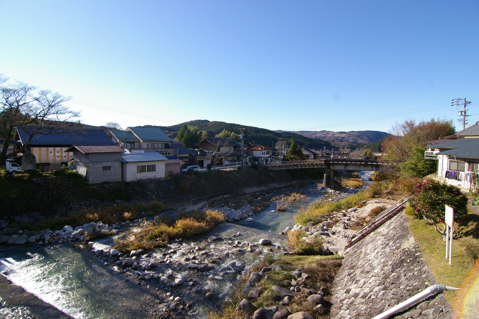 Agi River in Agi, Nakatsugawa City, Gifu Prefecture, Japan)